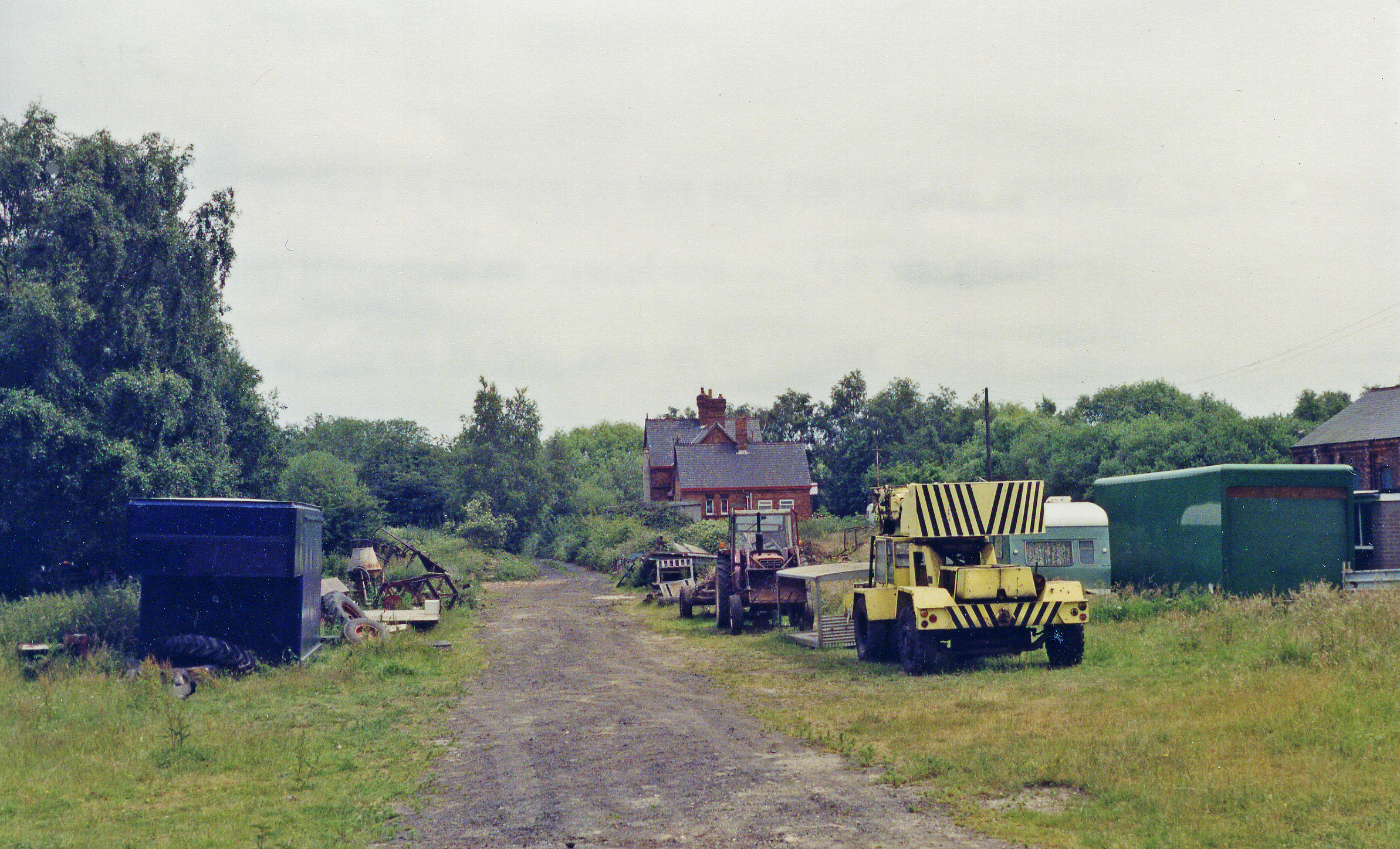 Drax: site/remains of former Hull & Barnsley station. View NE, toward South Howden and Hull: ex-H&B Hull - South Howden - Cudworth line. The station (named 'Drax Abbey' 3/51 - 6/61) closed to passengers when the service from Hull Paragon through to Cudworth ceased west of South Howden (the rest ended 11/8/55), but remained for freight until 6/4/59; through freight to Cudworth lasted until 7/8/67.